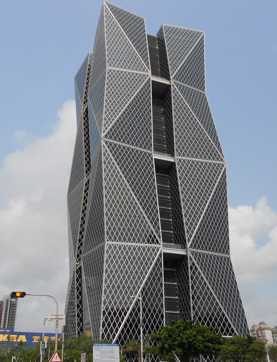 China Steel Corporatoin Headquarters.